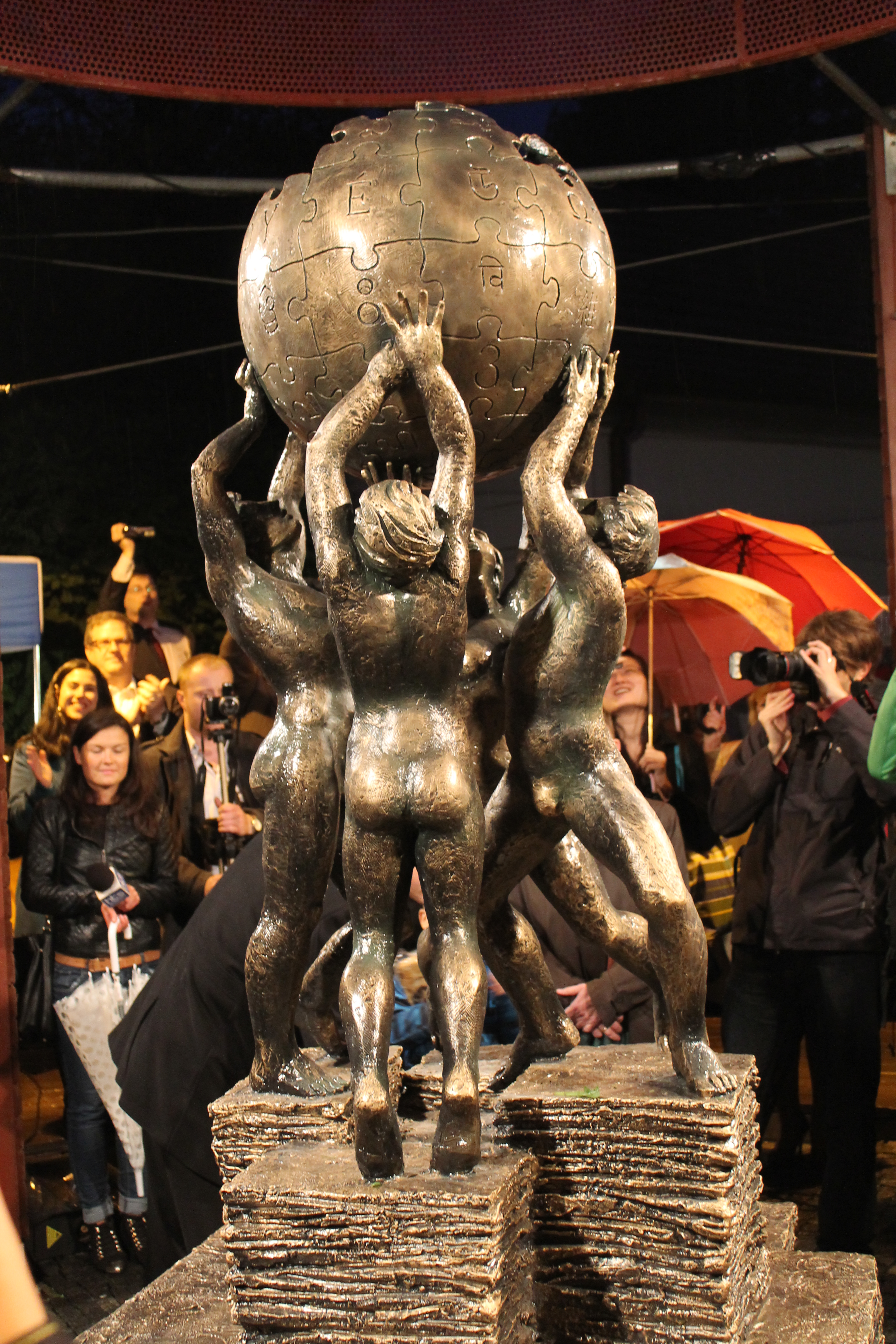 The unveiling of the Wikipedia monument